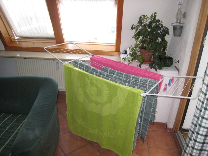 Clothes dryer made of steel.